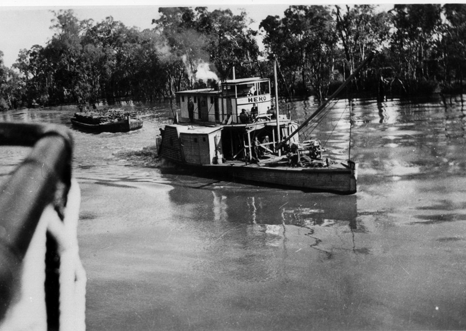 Paddle Steamer Hero - towing wood near Barmah Forest - Murray River